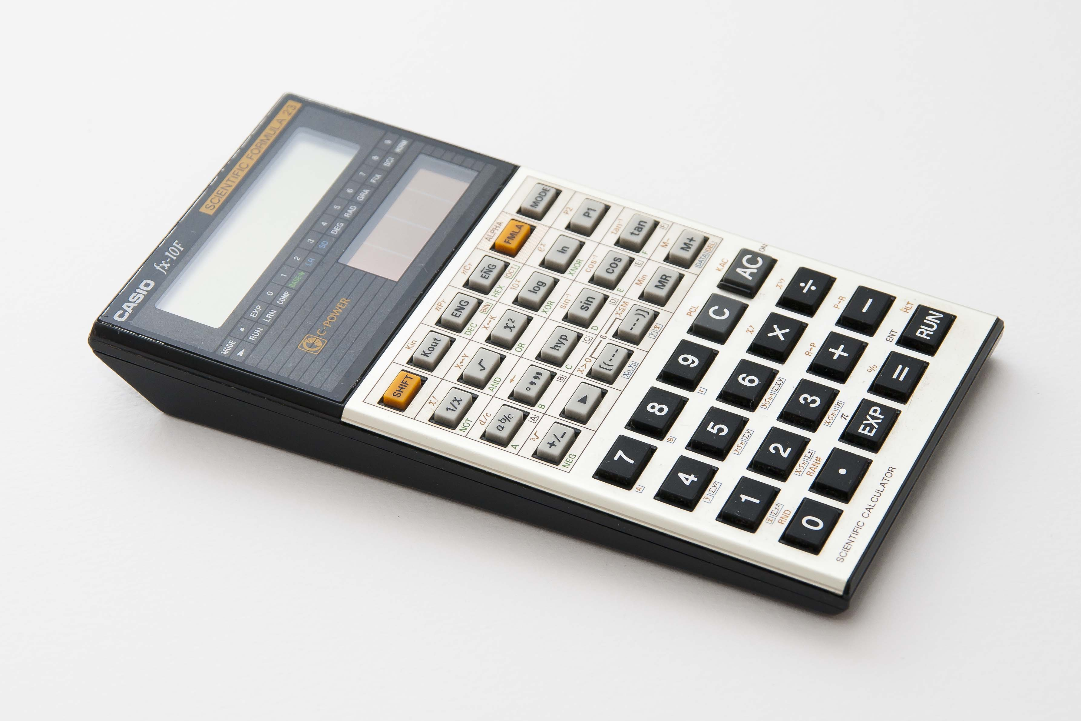 Casio fx-10F scientific formula 23 Calculator. Late eighties.